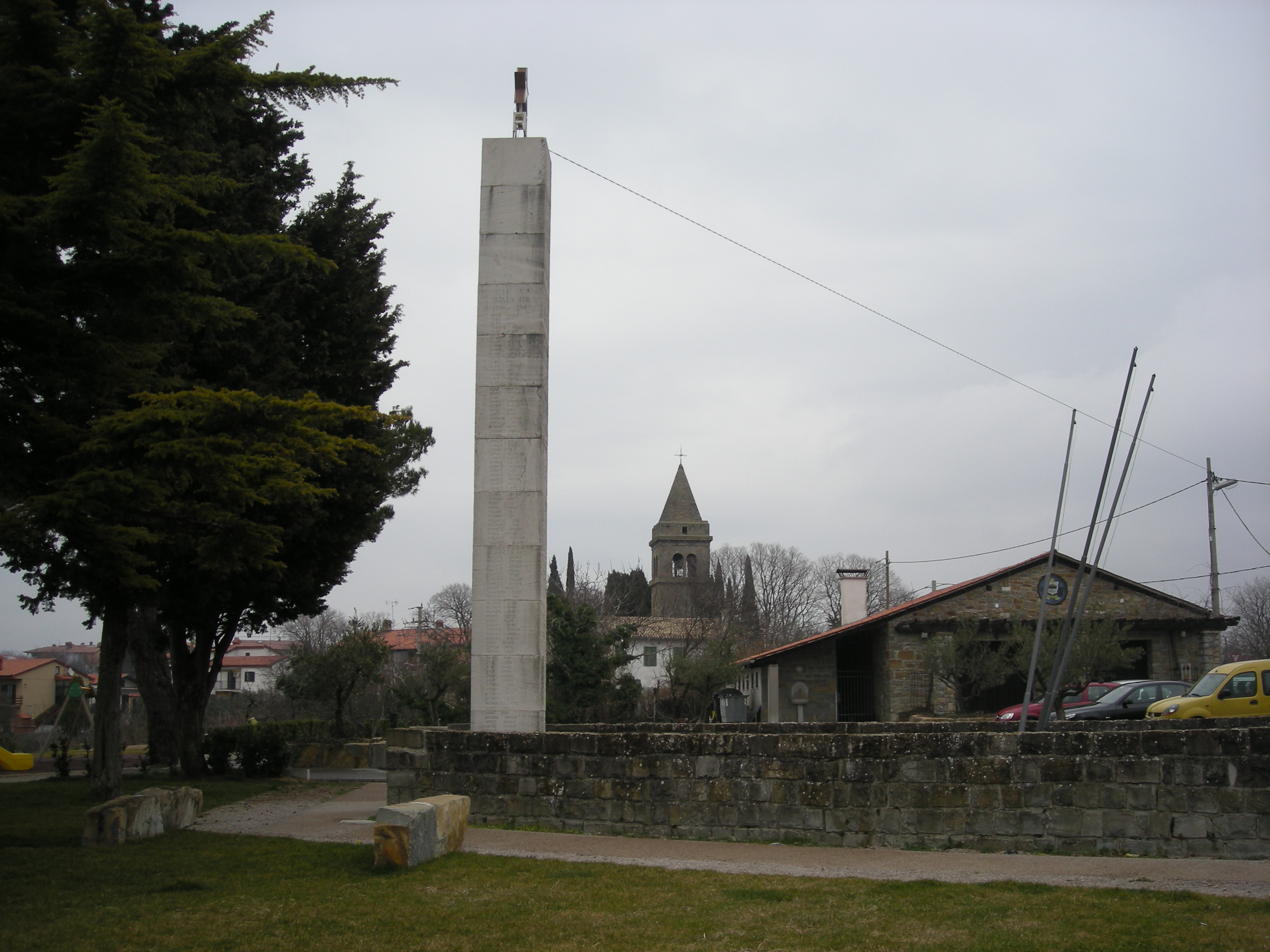 Marezige, village near Koper